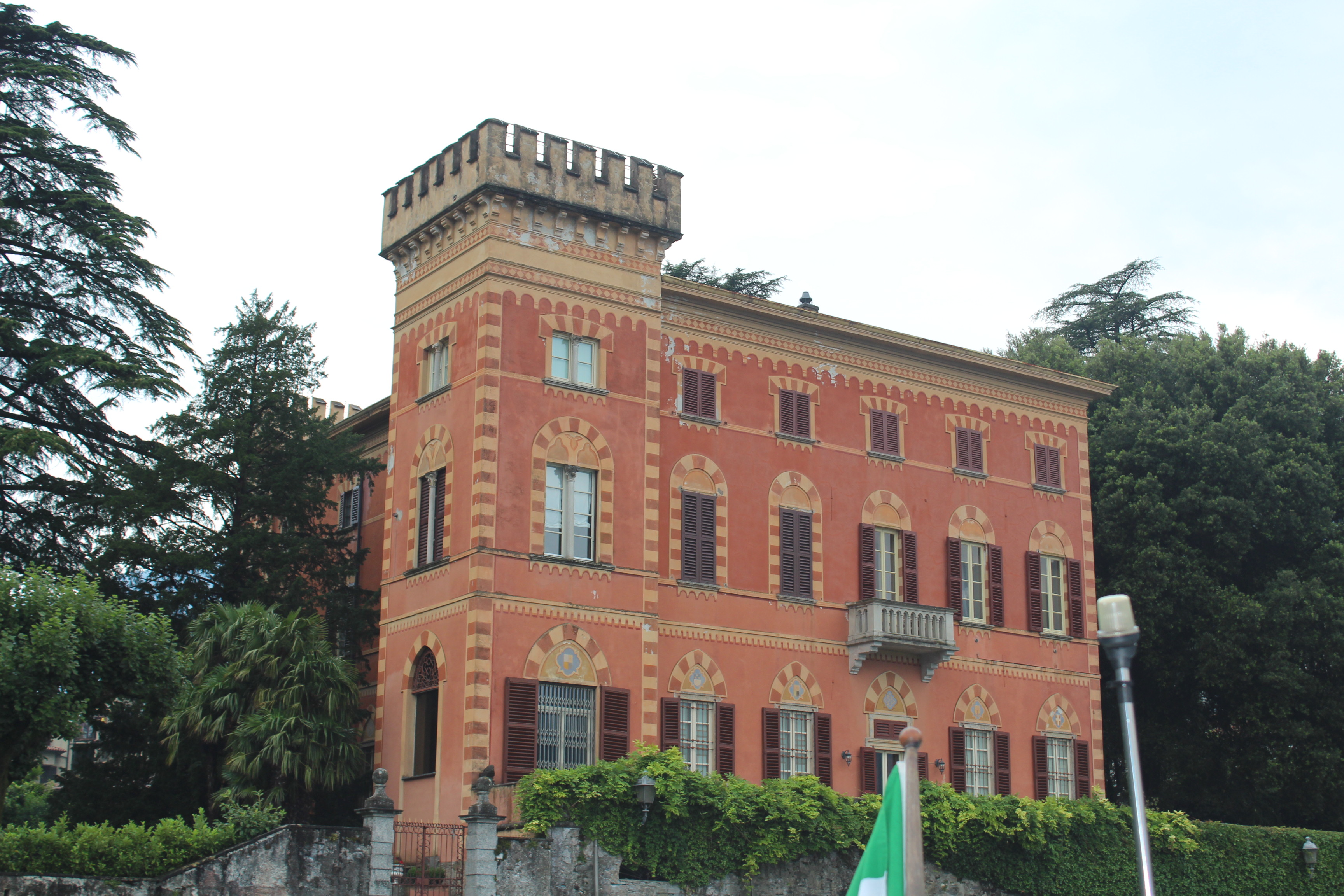 Lenno, Lake Como, Italy